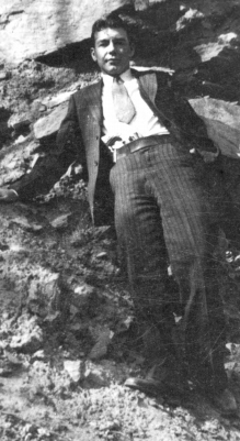 W.D. Jones in front brownie camera.